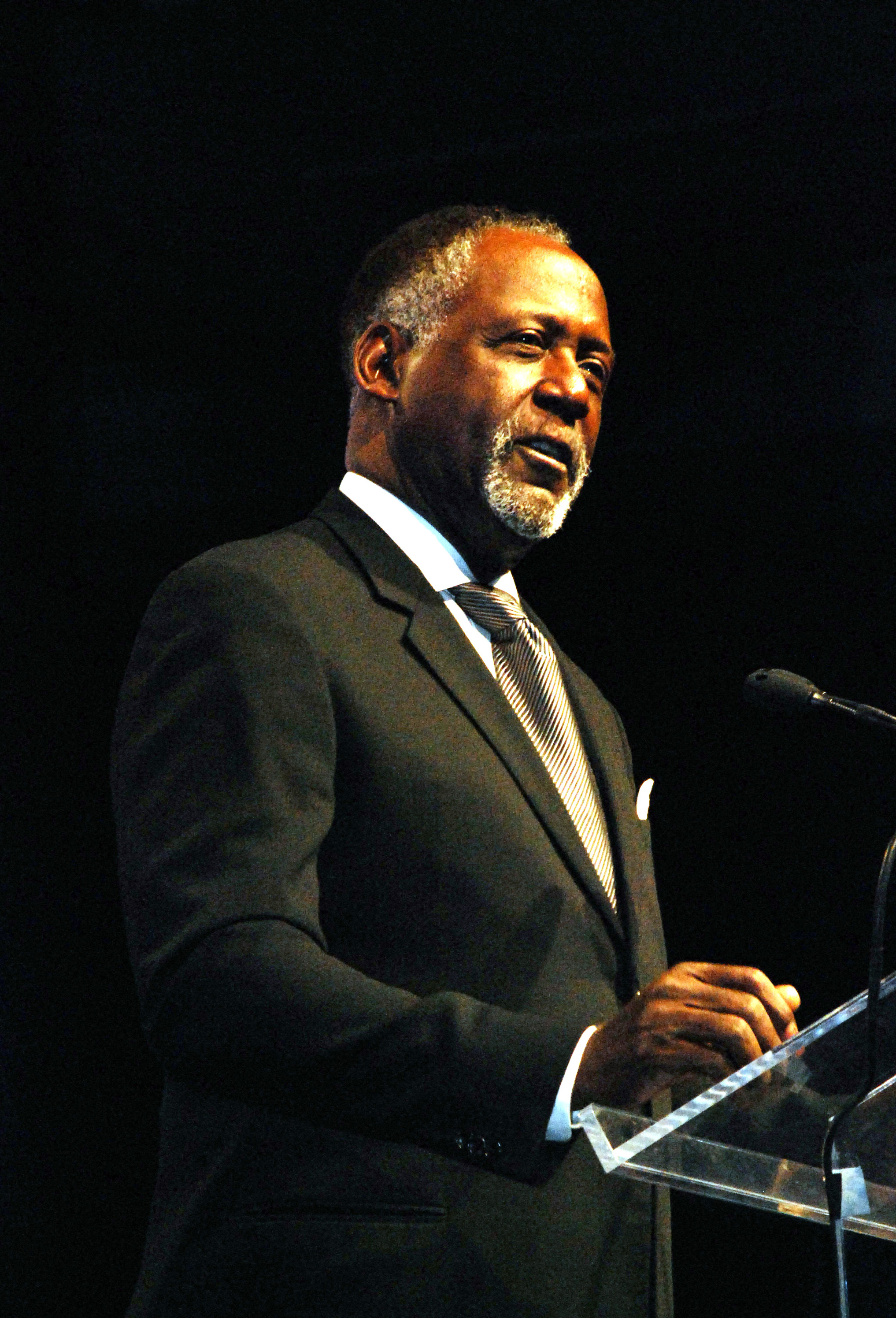 070217-N-5608F-004 Baltimore - Peabody Award-winning actor Richard Roundtree hosts the 21st Annual Black Engineer of the Year Awards (BEYA) Gala Awards Ceremony. BEYA recognizes excellence in engineering for government and civilian organizations, and is one of the largest diversity events the Navy participates in annually. Roundtree is most recognized for his work as John Shaft in the movie and television franchises.